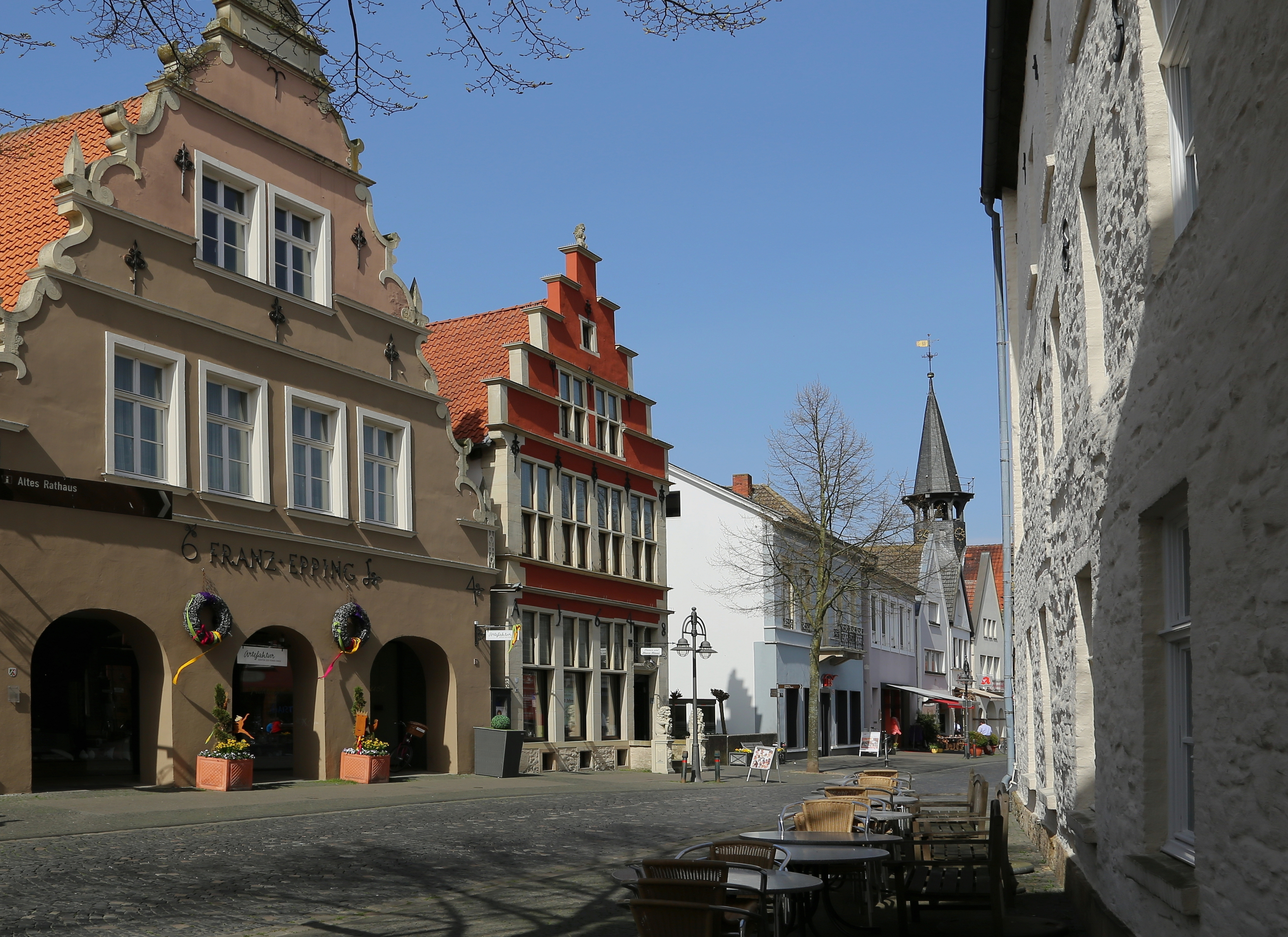 At the Market (Markt) in Steinfurt-Burgsteinfurt, Kreis Steinfurt, North Rhine-Westphalia, Germany. On the left hand side Goddaeus House (Beamtenhaus Goddaeus) and Kestering House (Beamtenhaus Kestering), on the right the Wine House (Weinhaus).